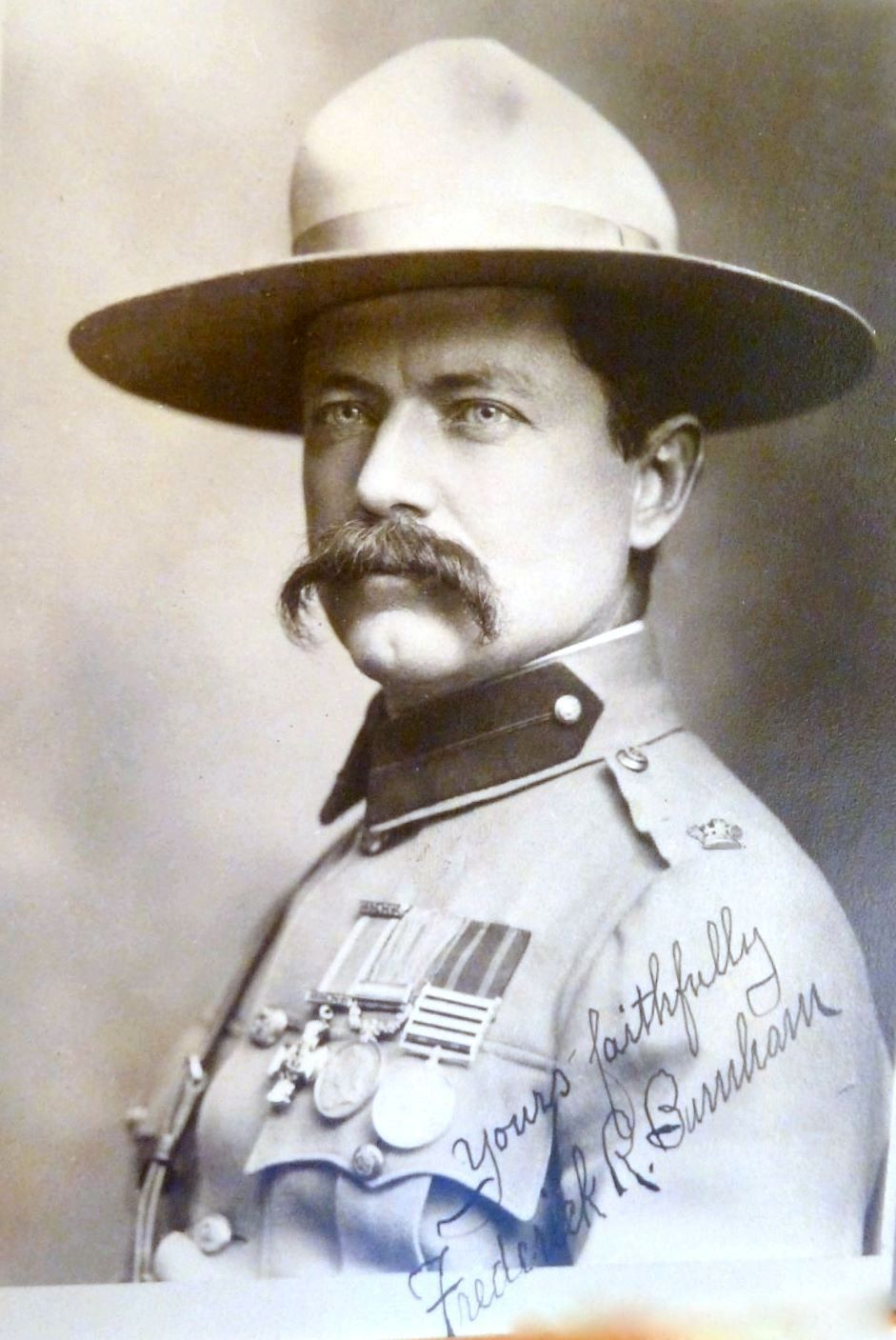 Major Frederick Russell Burnham, receives the Distinguished Service Order (D.S.O.) for valor in the Second Boer War. Signed: Your Faithfully F. R. Burnham.